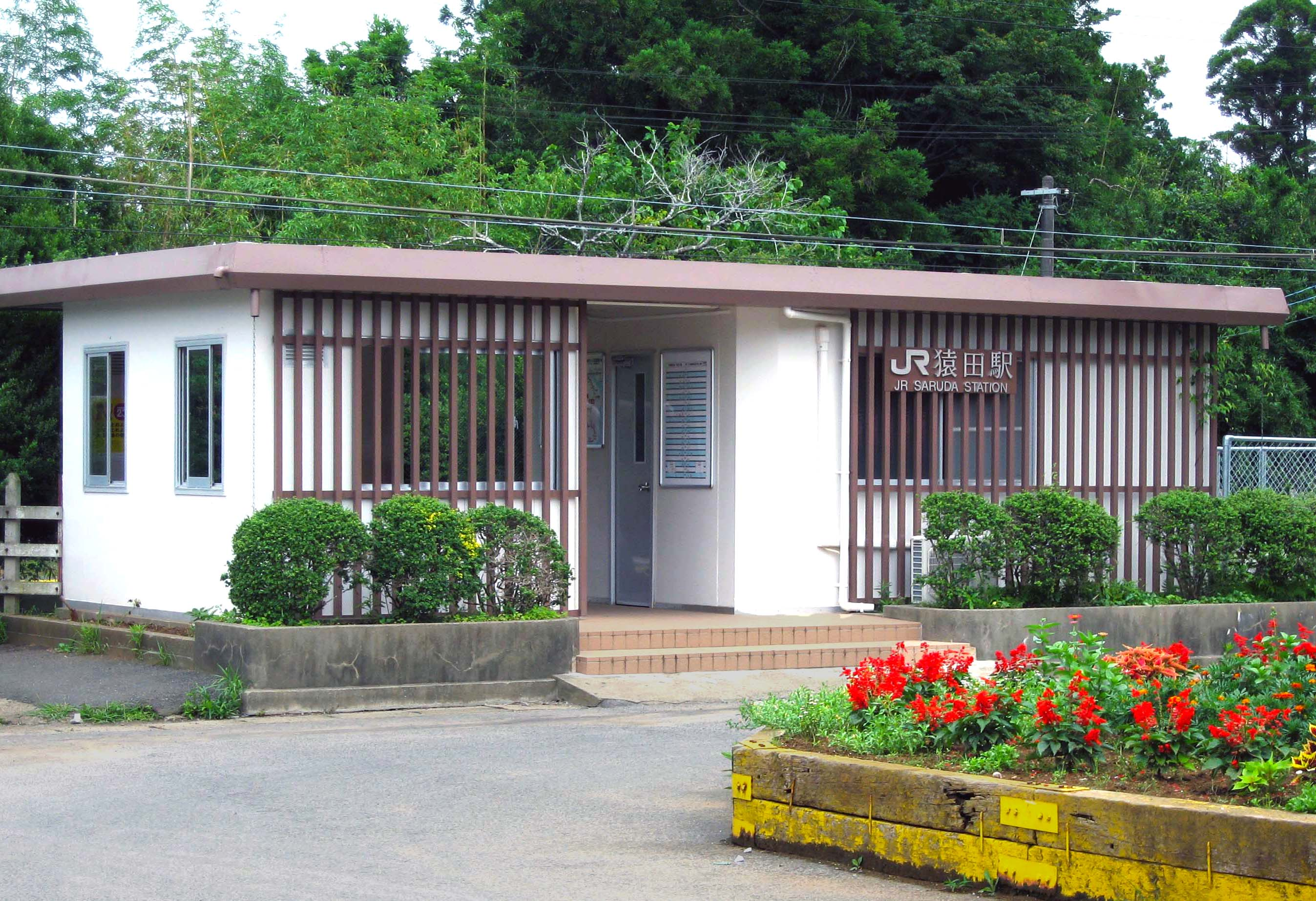 Saruta station, Soubu-Honsen Line, Chiba, Japan, 猿田駅駅舎